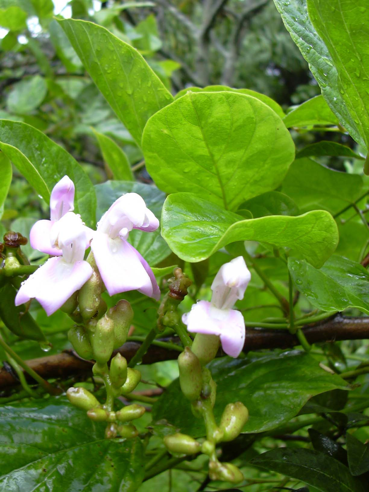 Canavalia cathartica (flowers). Location: Maui, Kiphahulu Haleakala National Park